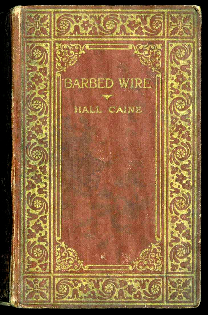 The front cover of the Readers' Library edition of Hall Caine's The Woman of Knockaloe, re-titled Barbed Wire to coincide with the 1927 film version of the novel directed by Rowland V. Lee and starring Pola Negri.